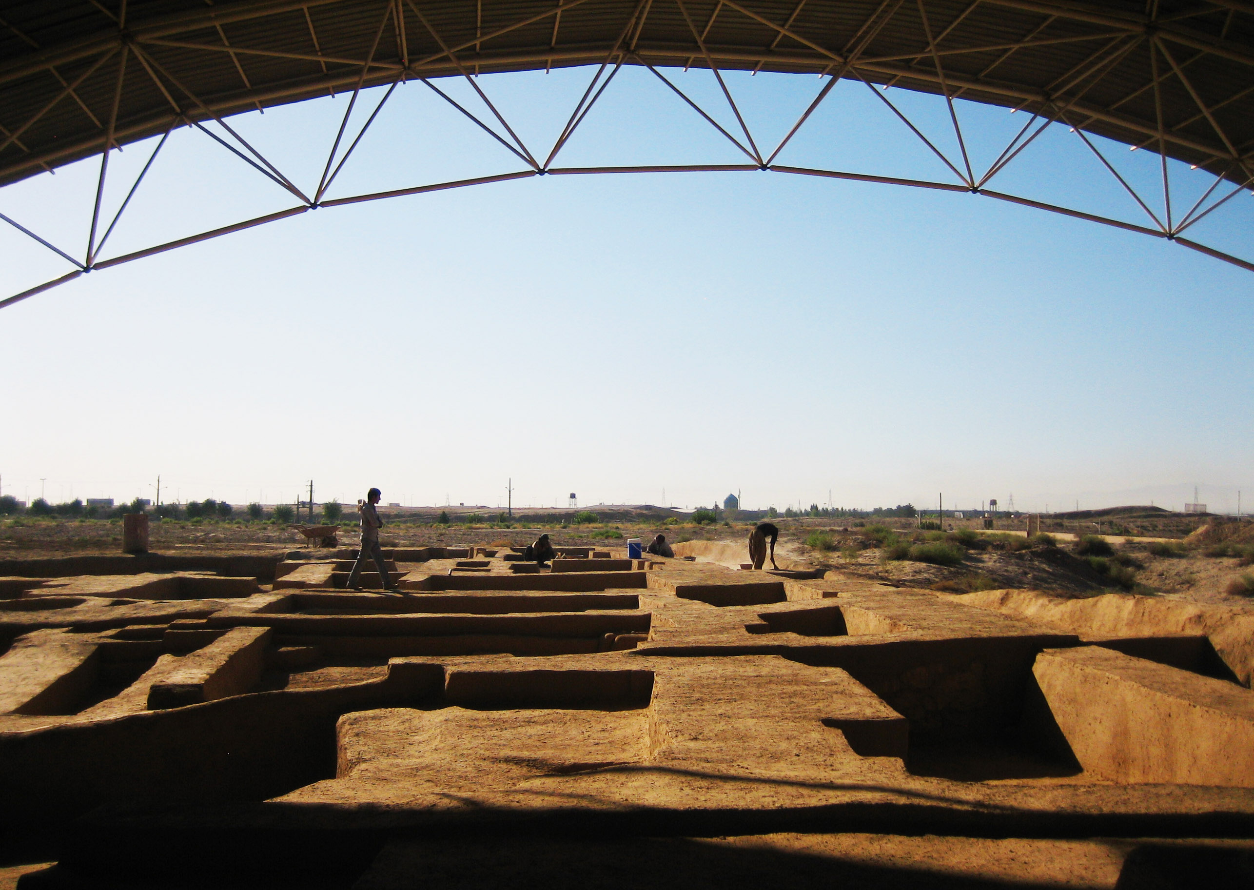 Qoli-Darvish Tappe - Qom